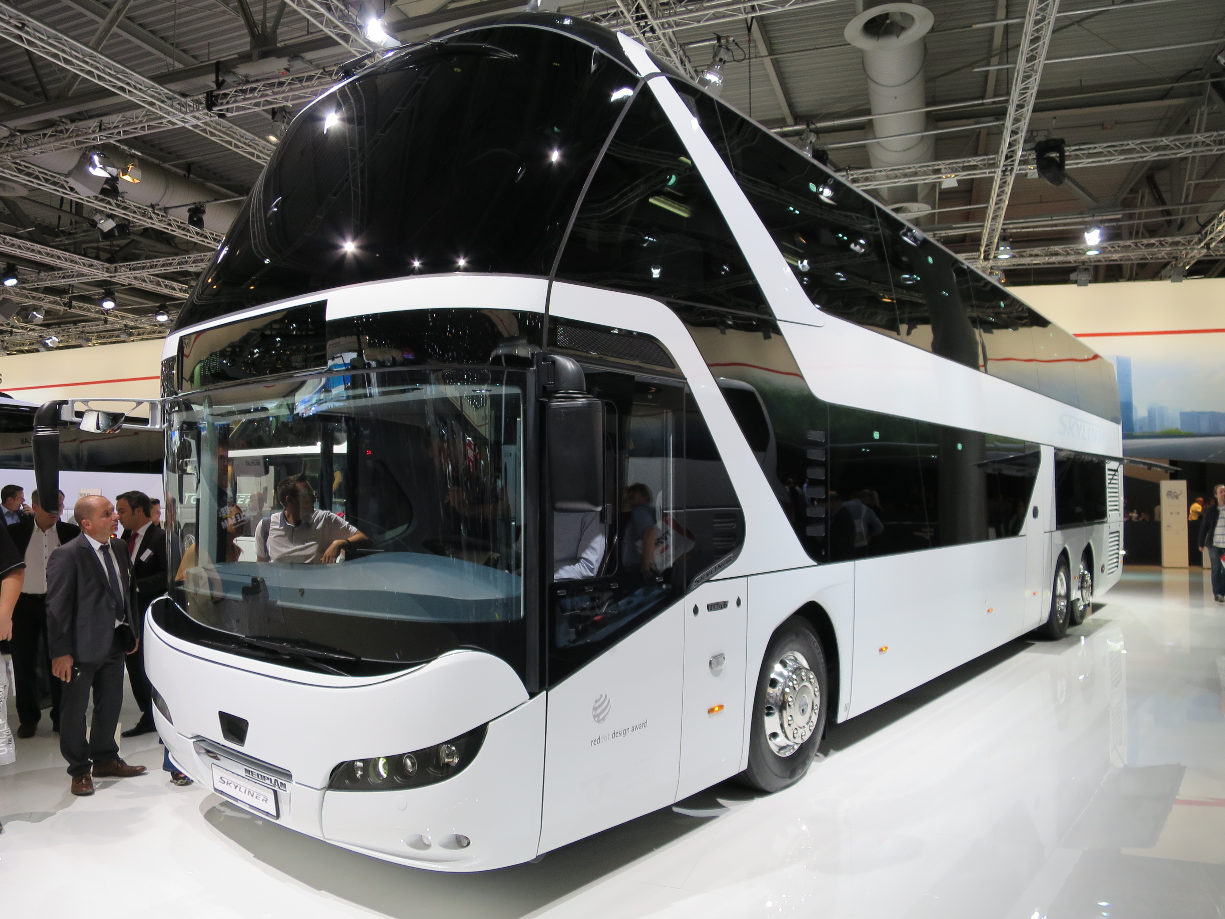 The making of this document was supported by Wikimedia Polska Association, within Wikigrant no. WG 2016-35. Neoplan Skyliner